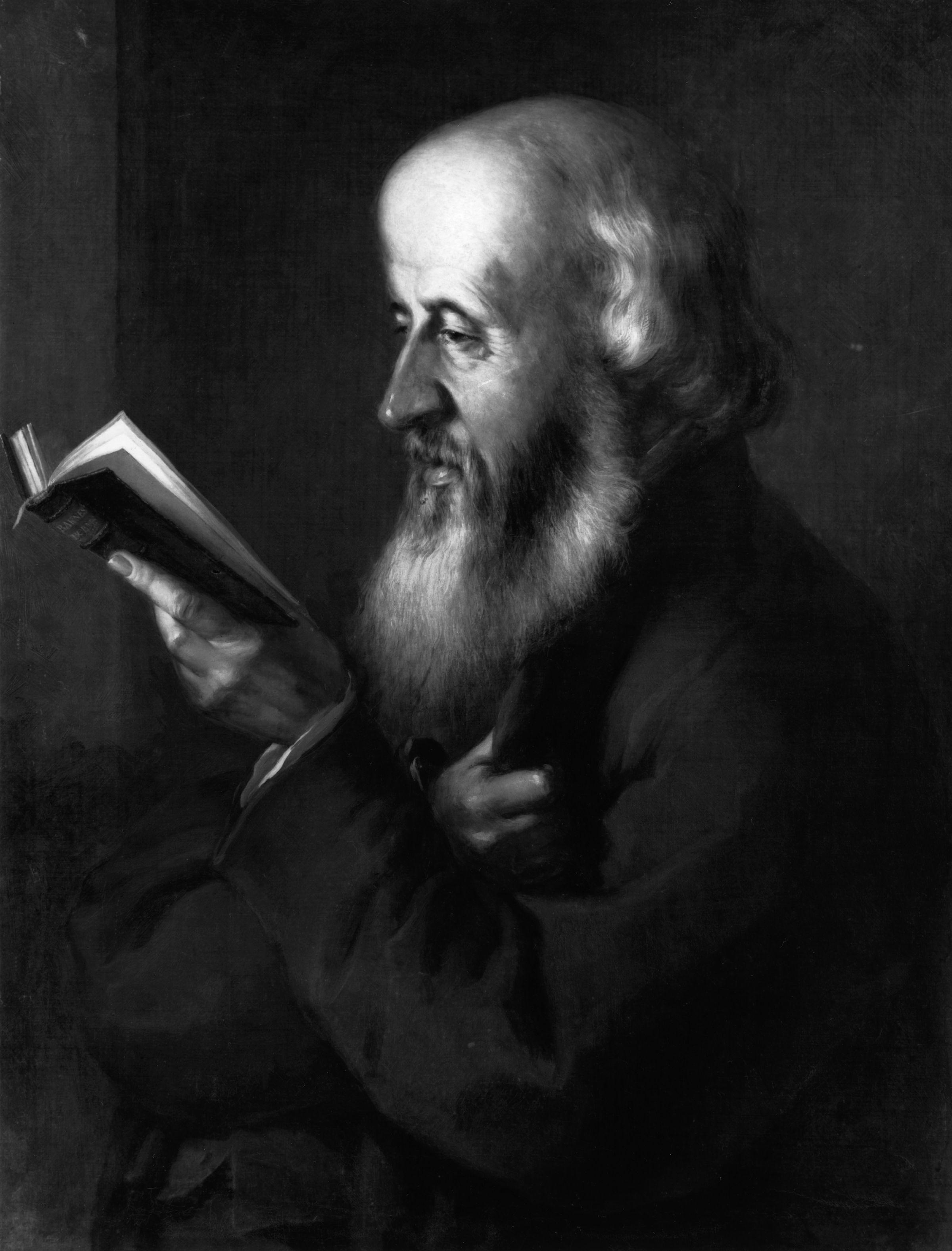 William Barnes, by George Stuckey (died 1872), given to the National Portrait Gallery, London in 1947. All images in this batch have been confirmed as author died before 1939 according to the official death date listed by the NPG.